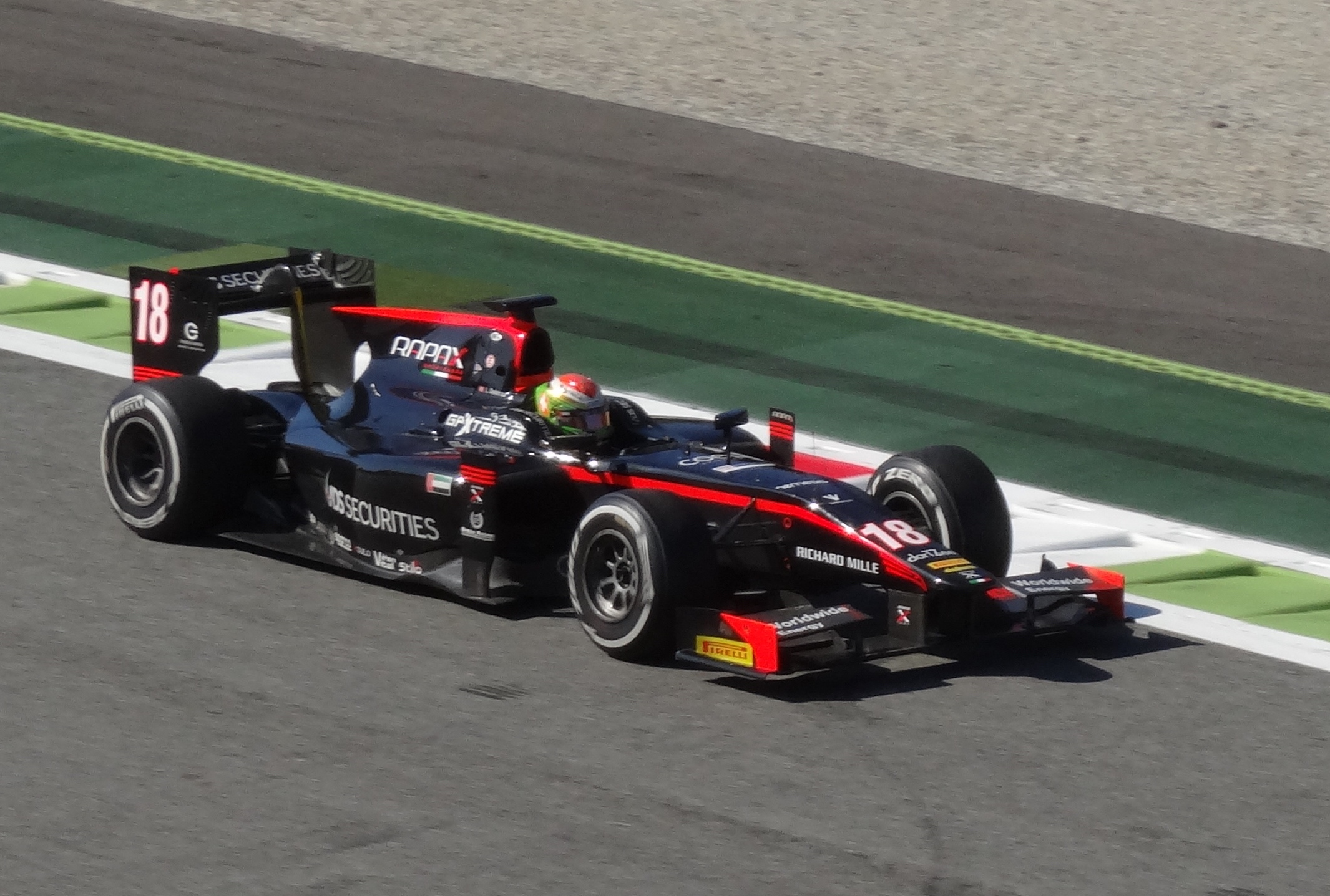 Louis Delétraz Monza F2 2017